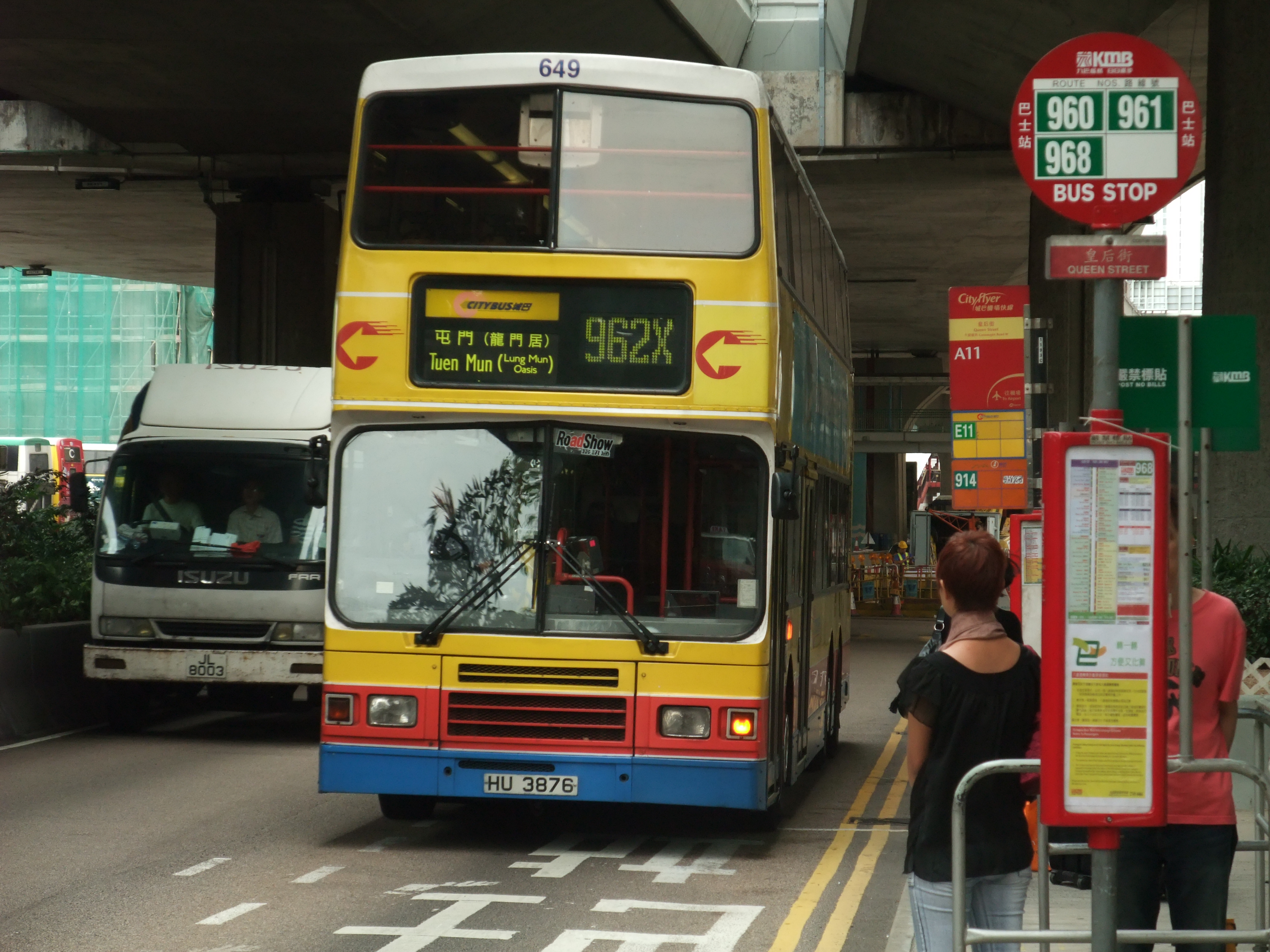 Photo of Citybus Route 962X